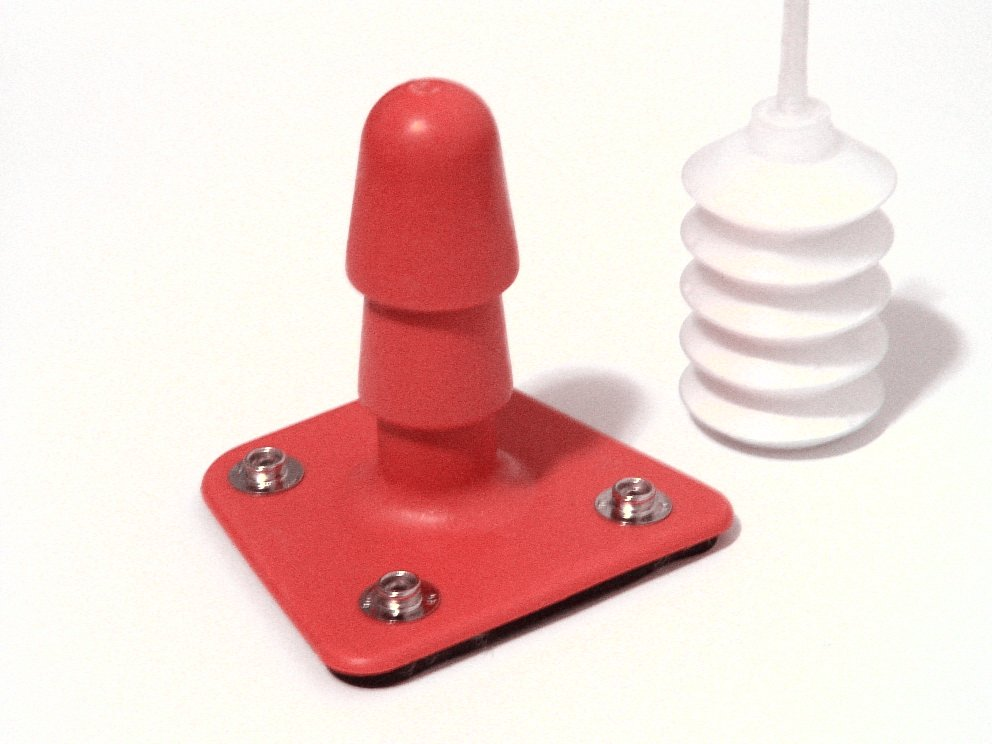 I took this image myself, of the vac-u-lock plug from my strap-on harness, and release it under the GFDL.